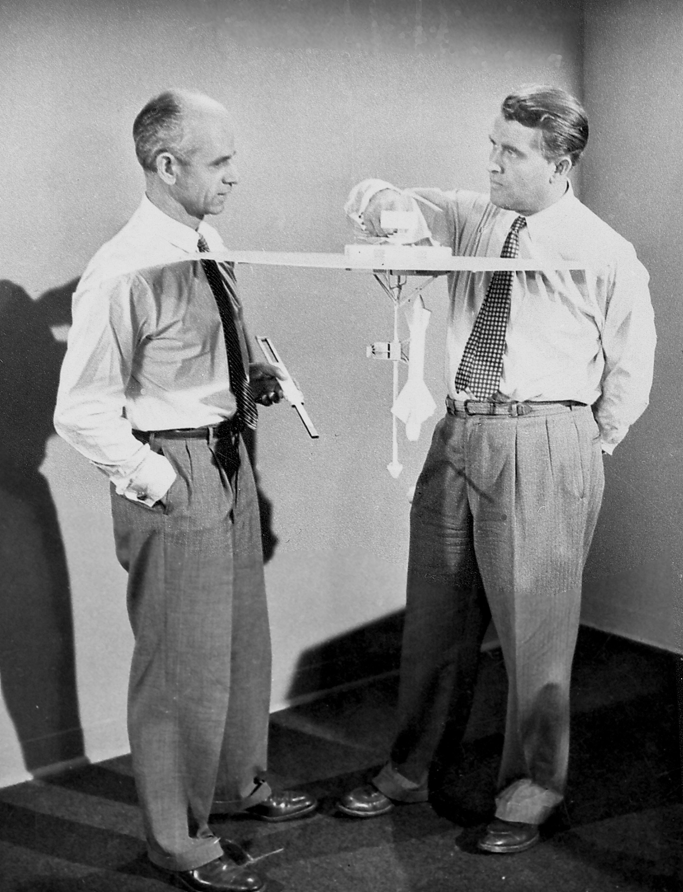 In this photo, taken at the Walt Disney Studios in California, Dr. Wernher von Braun and Dr. Ernst Stuhlinger are shown discussing the concepts of nuclear-electric spaceships designed to undertake the mission to the planet Mars. As a part of the Disney "Tomorrowland" series on the exploration of space, the nuclear-electric vehicles were shown in the last three television films, entitled "Mars and Beyond," which first aired in December 1957.